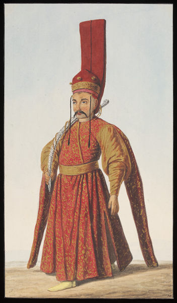 Silahdar Agha, sword-bearer of the Sultan